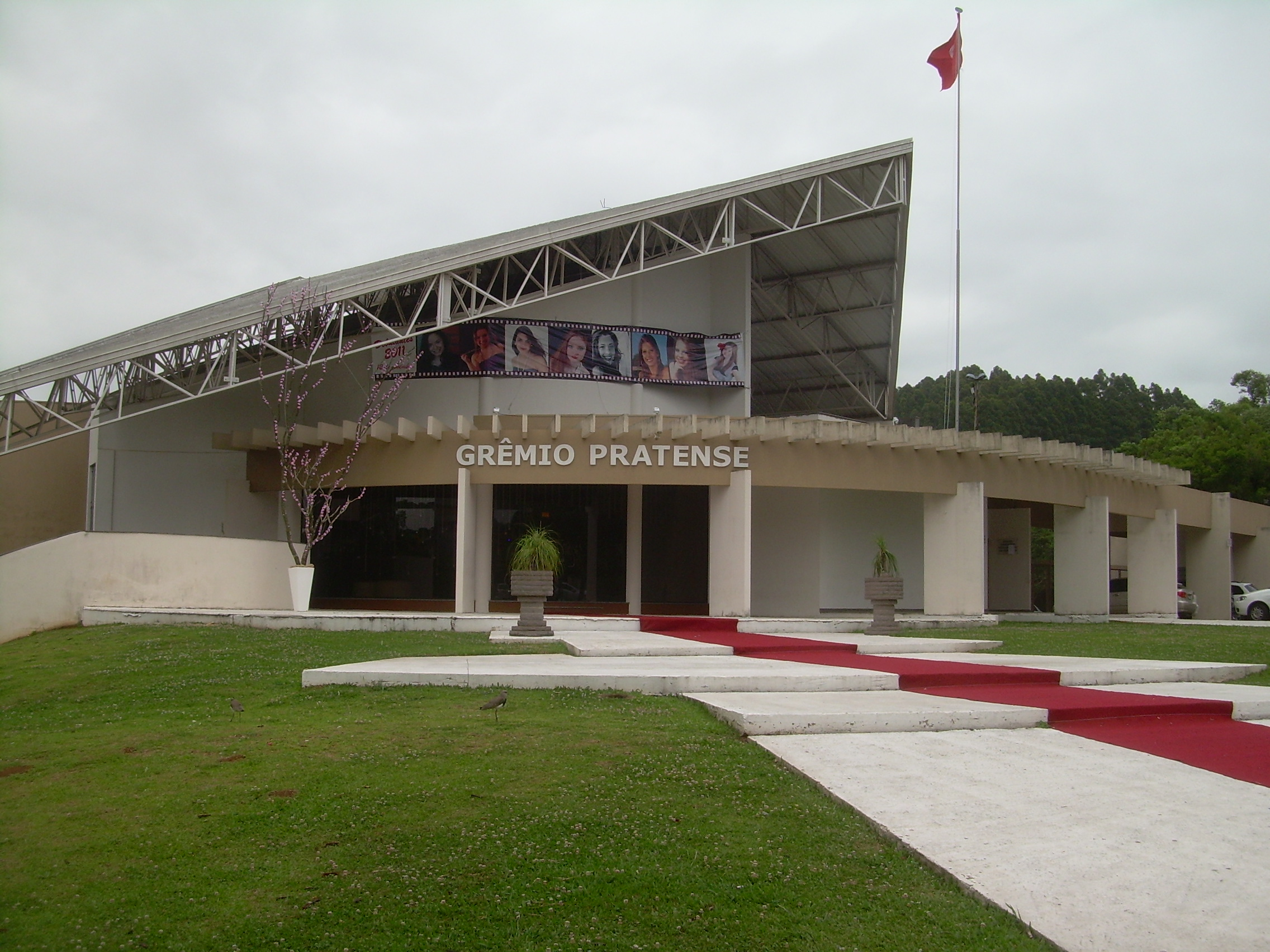 Club social de Nova Prata.